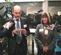 James Zumwalt, Charge d'Affaires, presented the "Woman of Courage" Award to Nami Takenaka, Chairperson of the Prop Station, at the Celebration of International Women's Day in Tōkyō Metropolis in March, 2009.